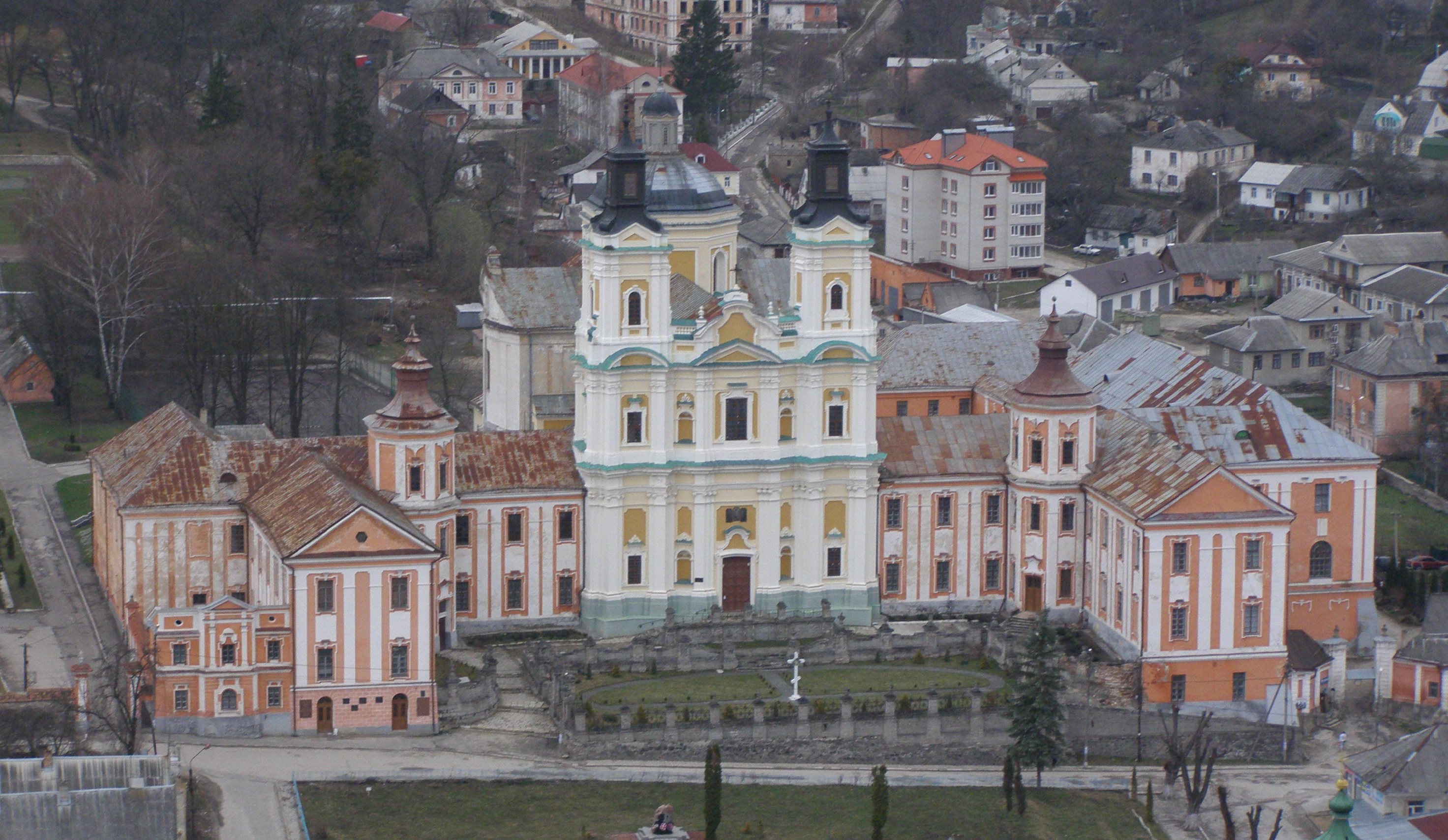 Photo of the building formerly Kremenets Gymnasium (Volynsky University)